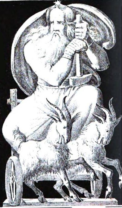 The caption for this illustration reads "Thor". The artist is uncredited. Please replace with a higher quality version if possible. This version was taken from a low quality scan found in a PDF version of the source.